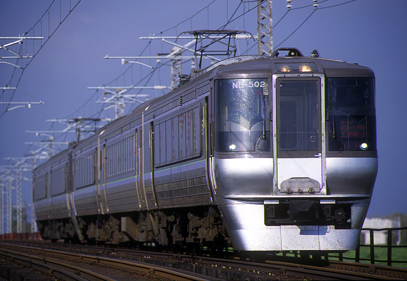 JR Hokkaido 785 series electric multiple unit on a "Super White Arrow" + "Airport" service